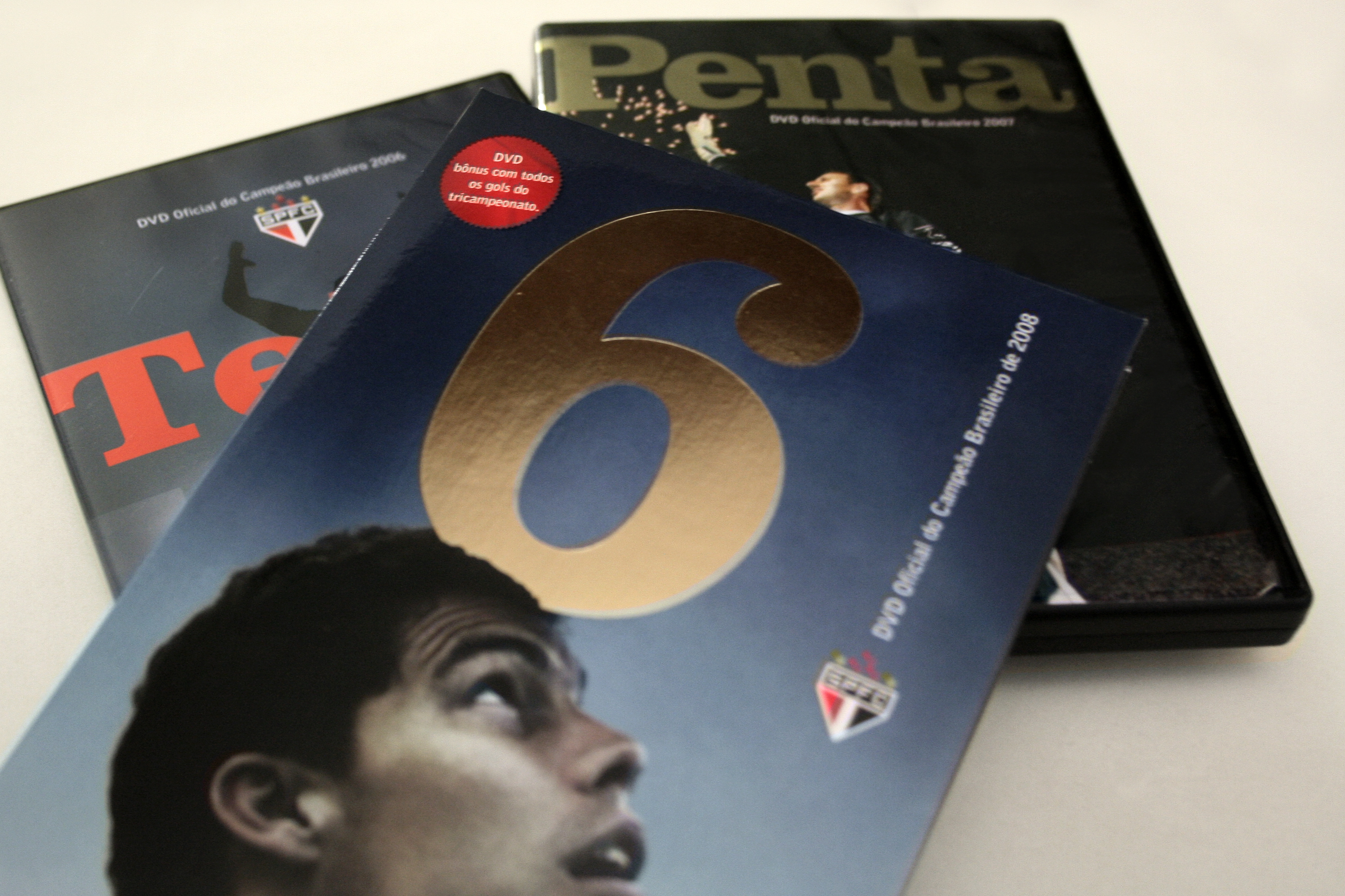 official DVDs of São Paulo Futebol Clube.